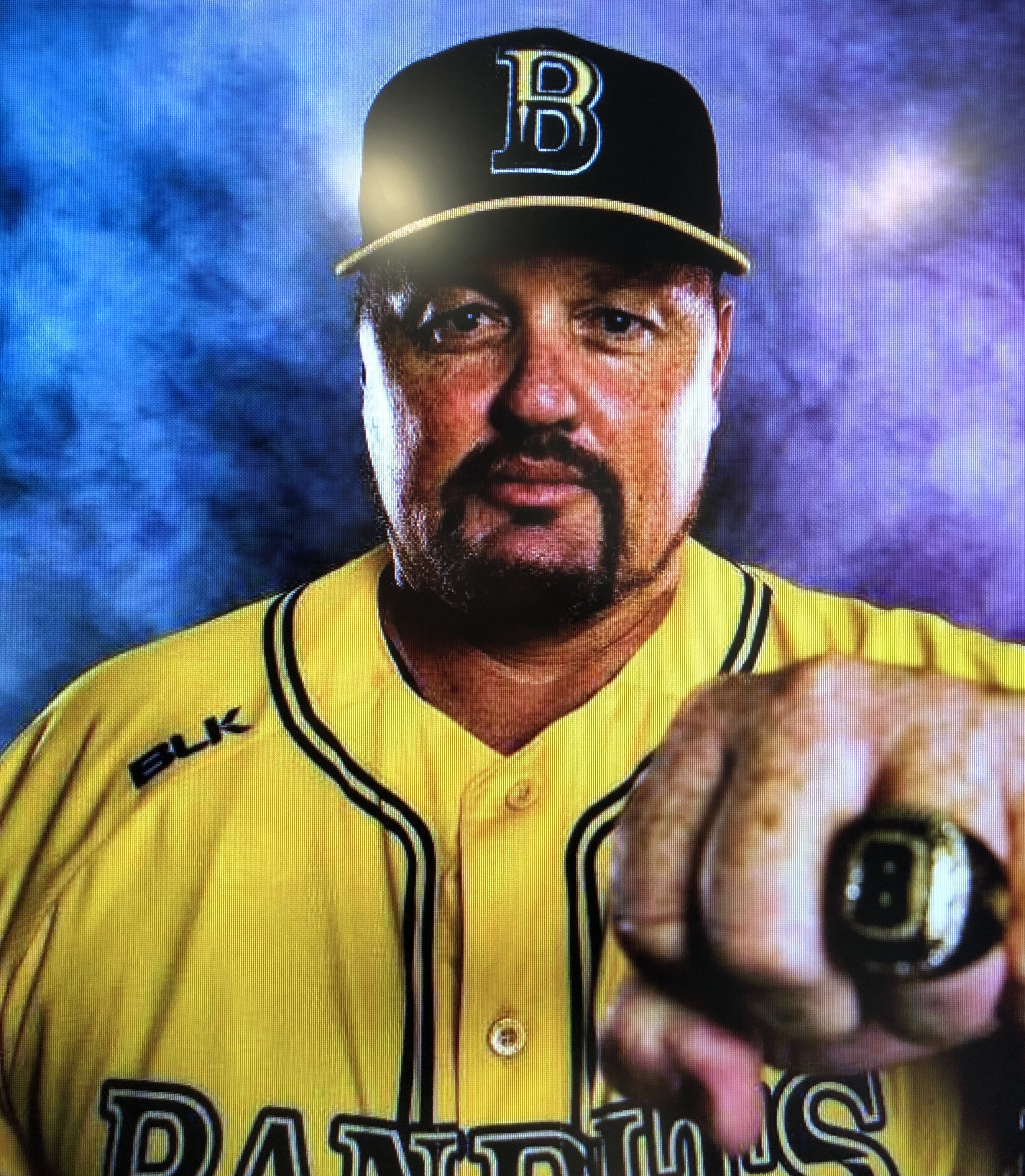 Dave Nilsson